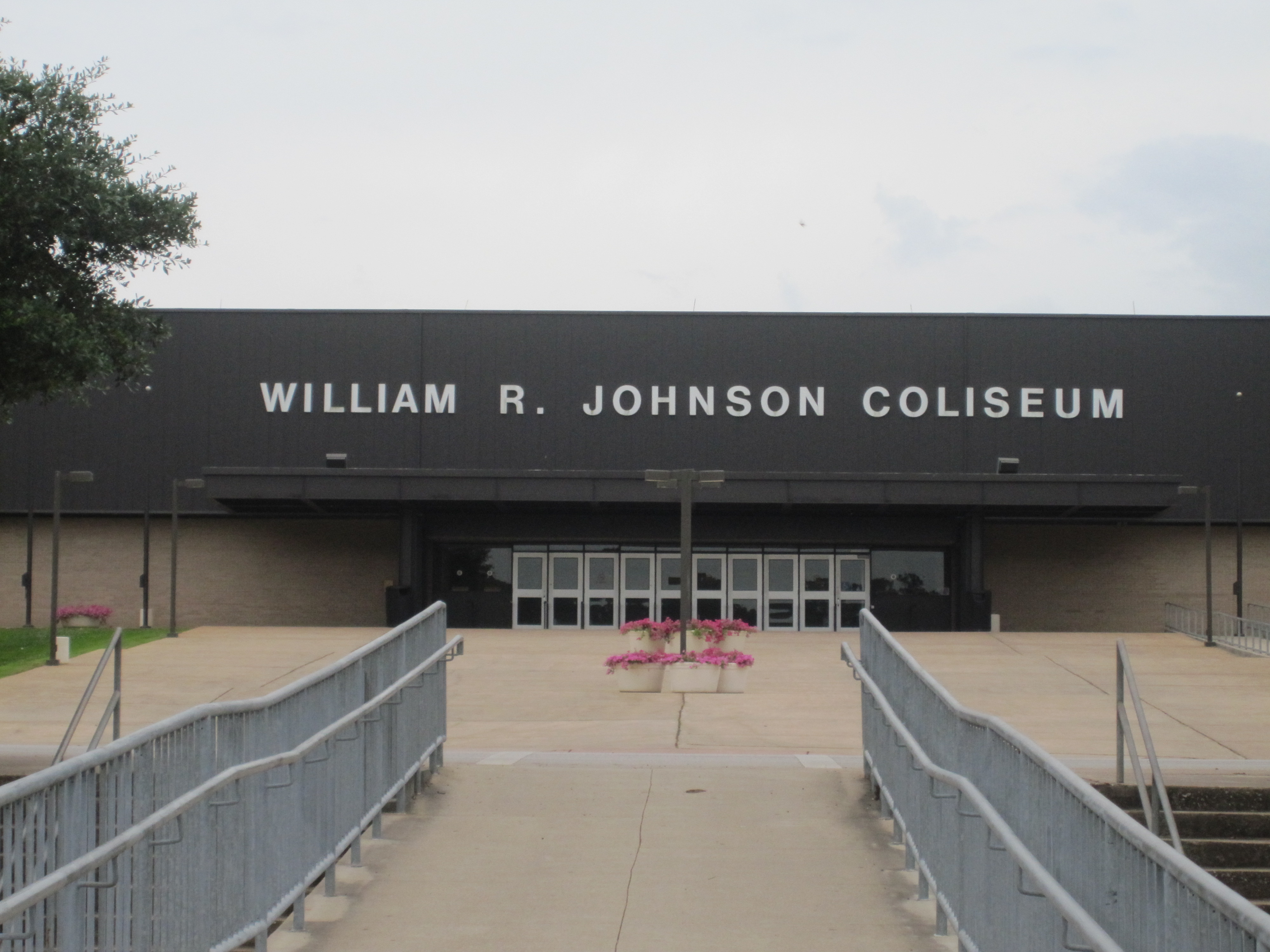 I took photo on May 14, 2010, with Canon camera.